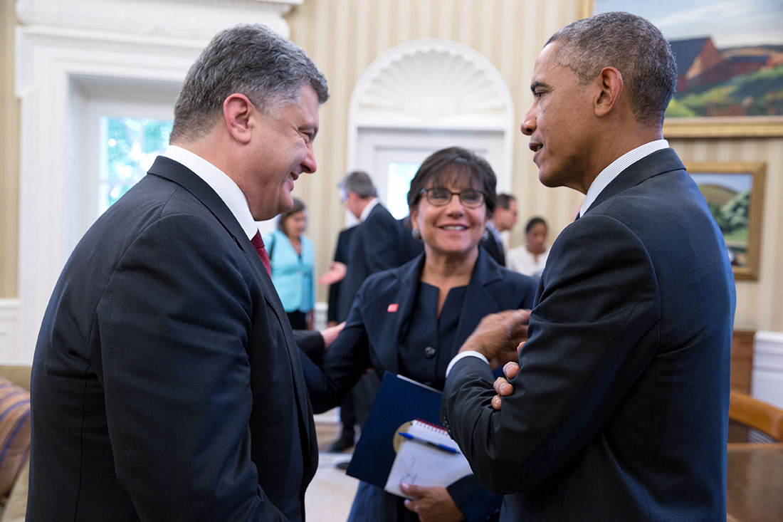 President Barack Obama talks with President Petro Poroshenko of Ukraine and Commerce Secretary Penny Pritzker following a bilateral meeting in the Oval Office, September 18, 2014.